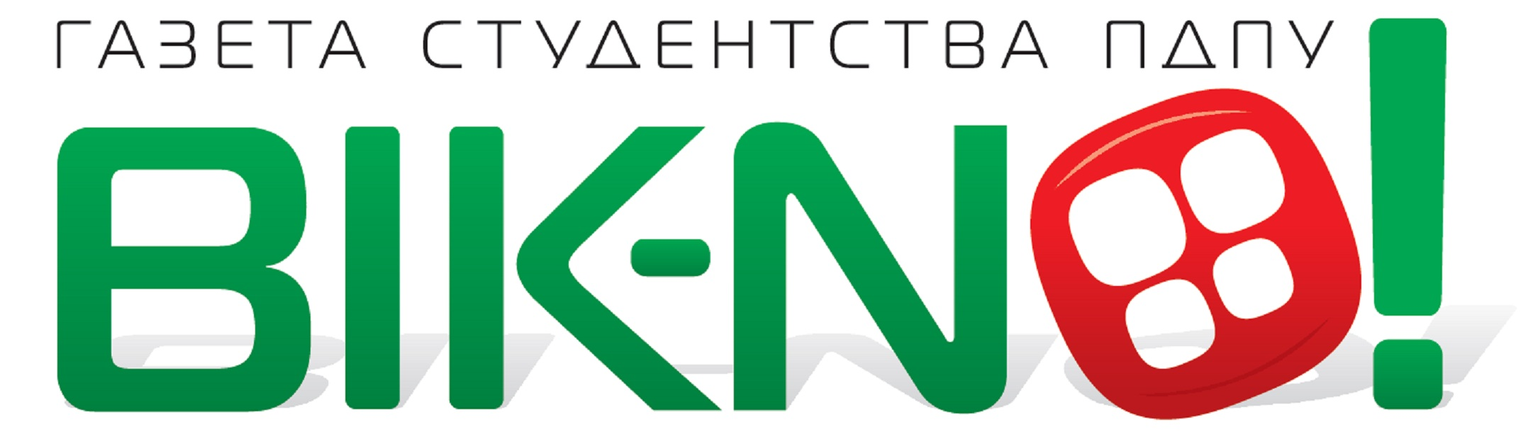 VIK-NO!